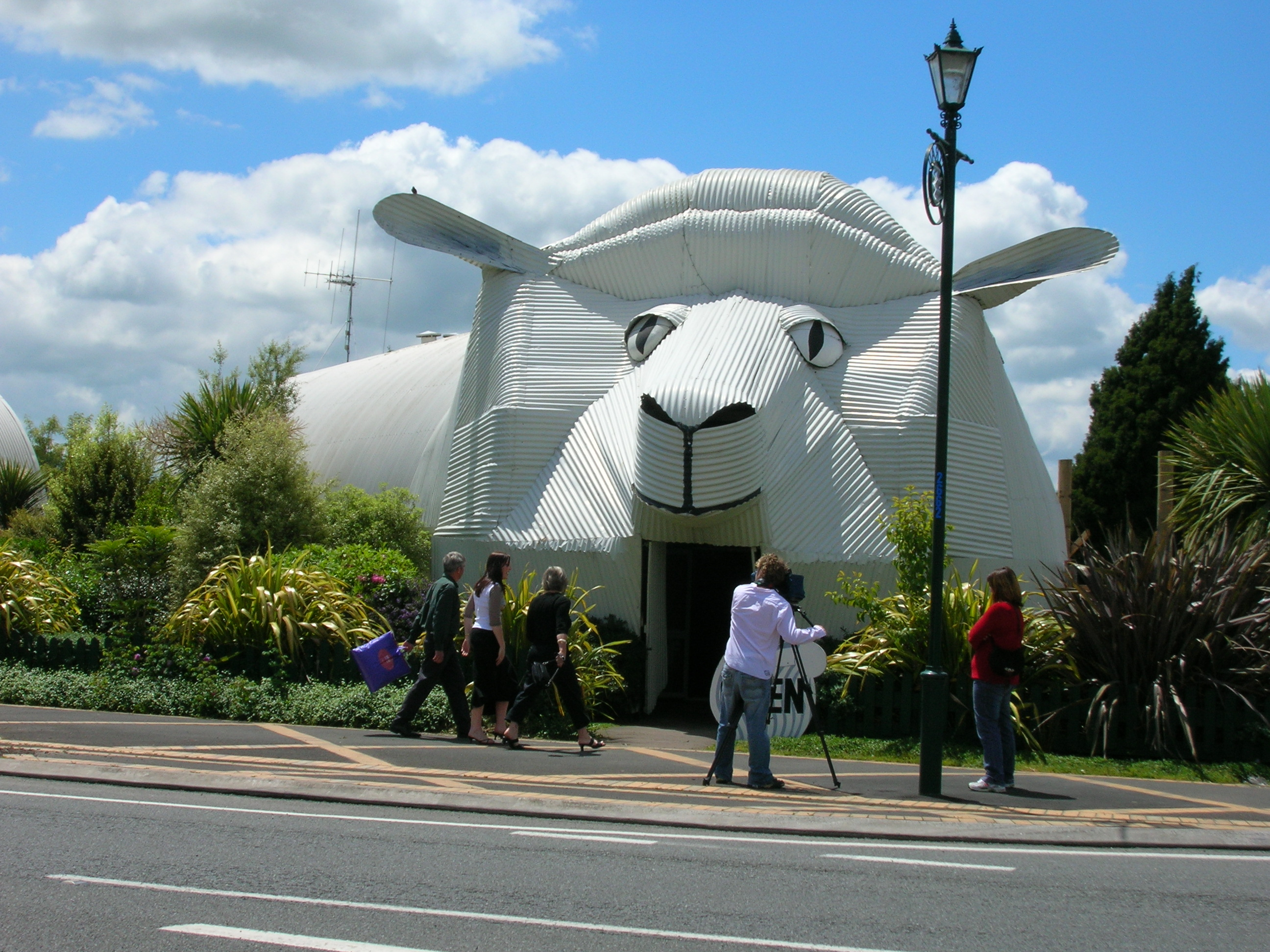 The corrugated metal sheep building is a bit strange, the entire town has corrugated metal building of different obects as an architectural style i110205 003